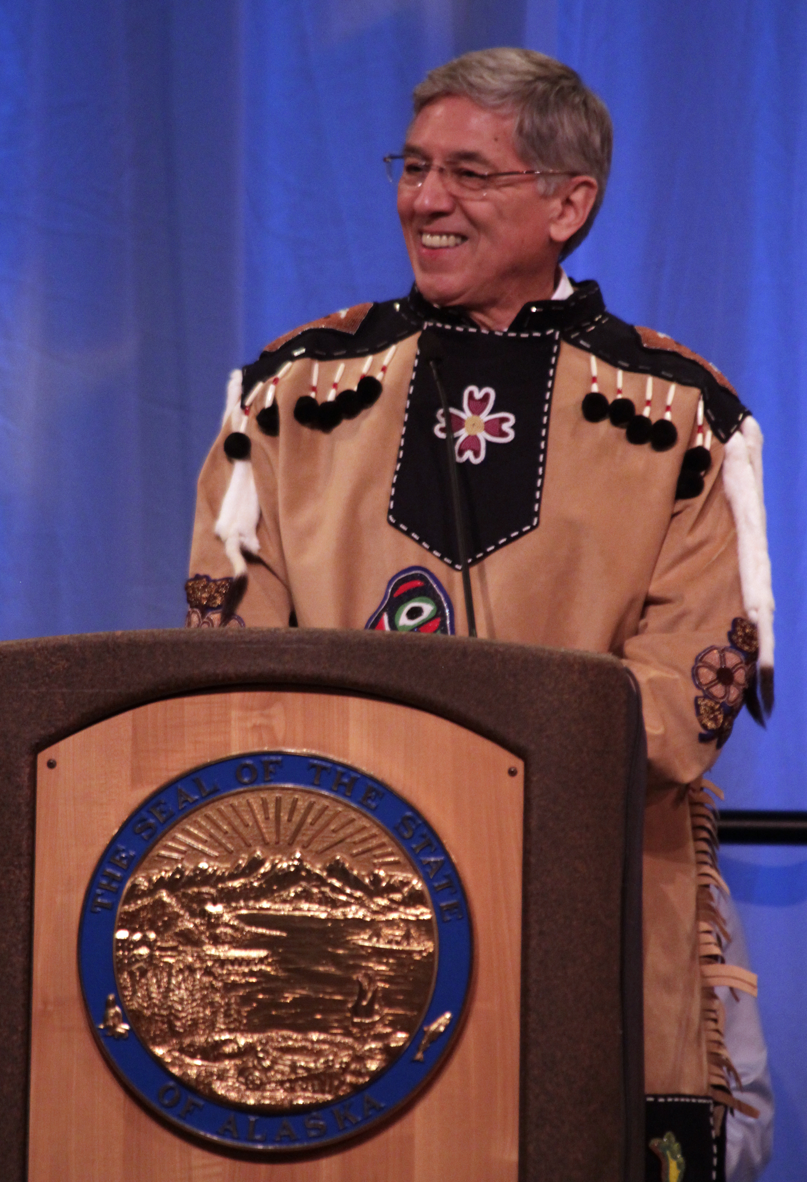 New Alaska Lt. Gov. Byron Mallott smiles after telling a joke during his inauguration speech Monday, Dec. 1, 2014 in Juneau, Alaska's Centennial Hall. Mallott, a Tlingit Alaska Native from Yakutat, wore traditional regalia during the ceremony.